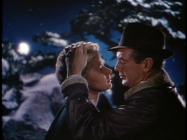 This screenshot shows Ingrid Bergman and Gary Cooper in a romantic scene at night.